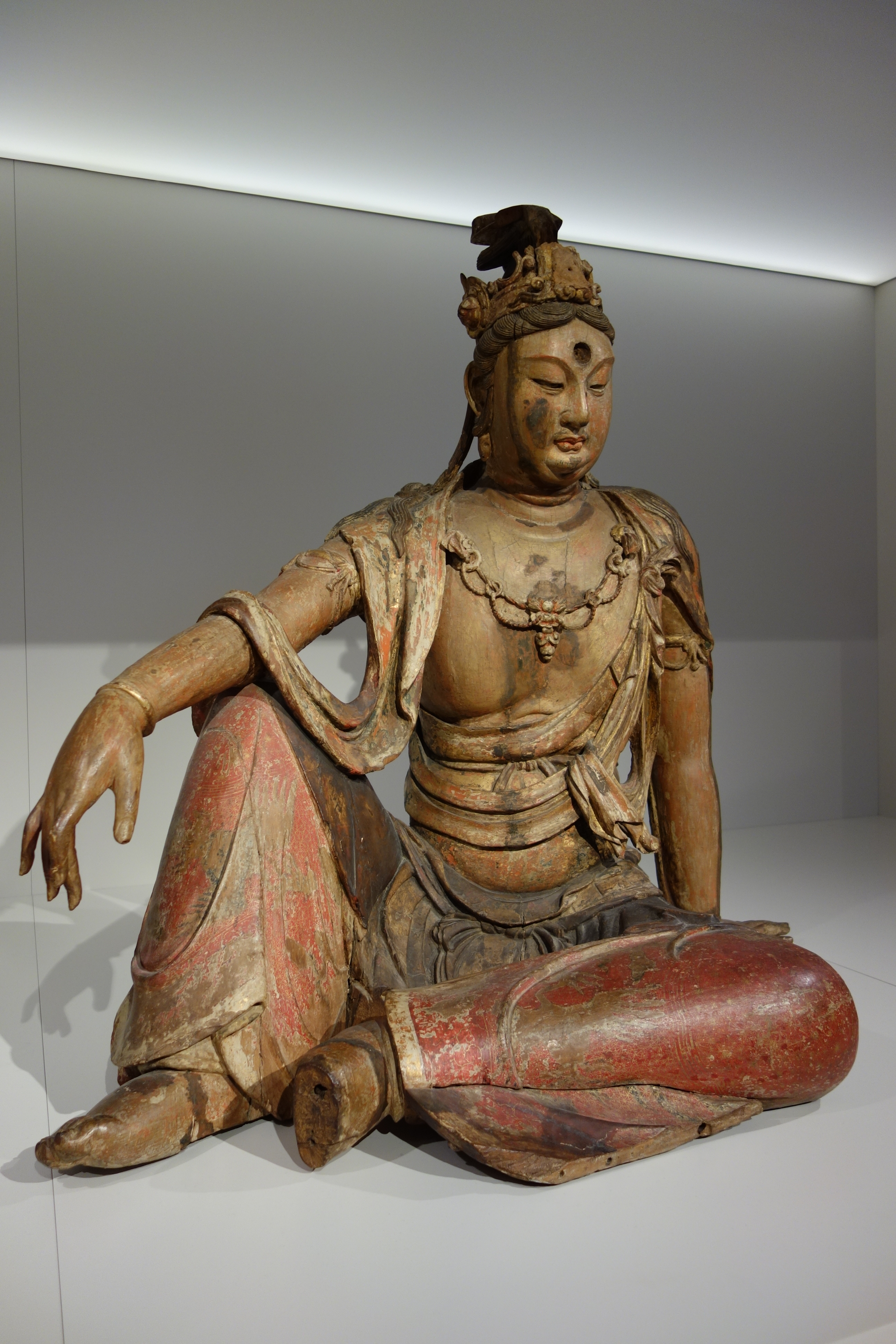 Statue of Guanyin in the Rijksmusuem in Amsterdam. It is made during the Song dynasty. Made out of two different types of wood.